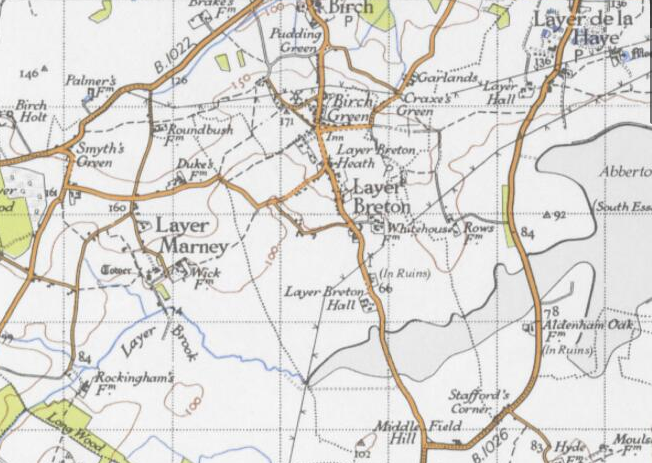 The image shows the location of Layer Breton on a 20th century ordnance survey map.